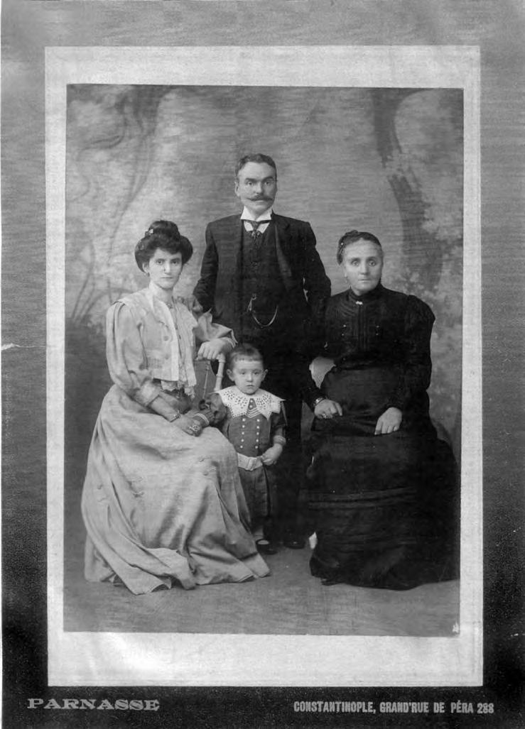 Nicolae Papahagi and his family